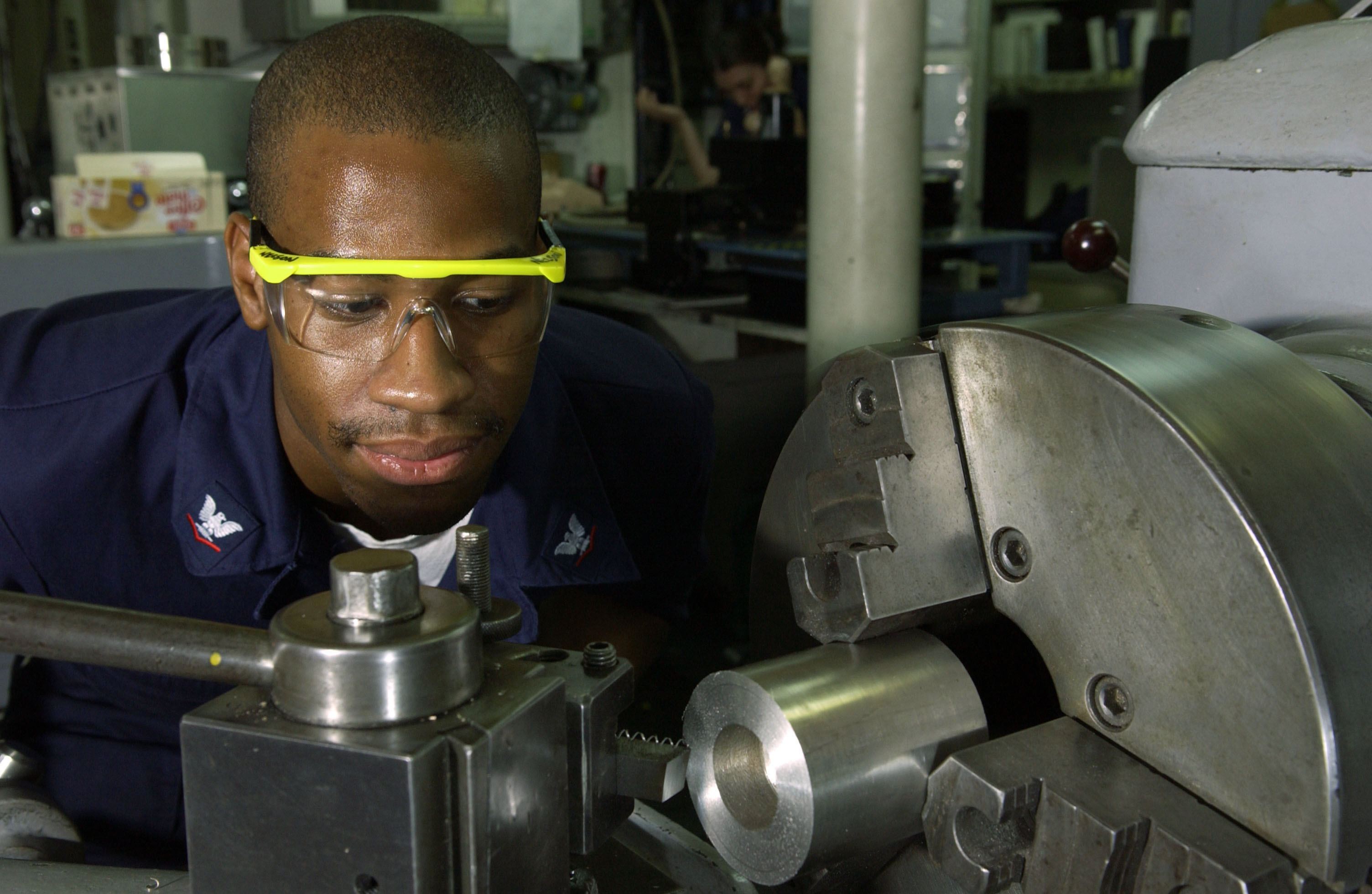 Sea of Japan (July 27, 2004) - Machinery Repairman 3rd Class Desmond Nelson of Stratford, Conn., uses a lathe to machine a piece of stainless steel. The ship’s machine shop can fabricate parts and materials otherwise difficult to obtain while at sea. The Kitty Hawk Strike Group is one of seven carrier strike groups (CSGs) involved in Summer Pulse 2004 which is the deployment of seven carrier strike groups (CSGs), demonstrating the ability of the Navy to provide credible combat capability across the globe, in five theaters with other U.S., allied, and coalition military forces. Summer Pulse is the Navy’s first deployment under its new Fleet Response Plan (FRP). U.S. Navy photo by Photographer's Mate 3rd Class Jason T. Poplin (RELEASED) For more information go to